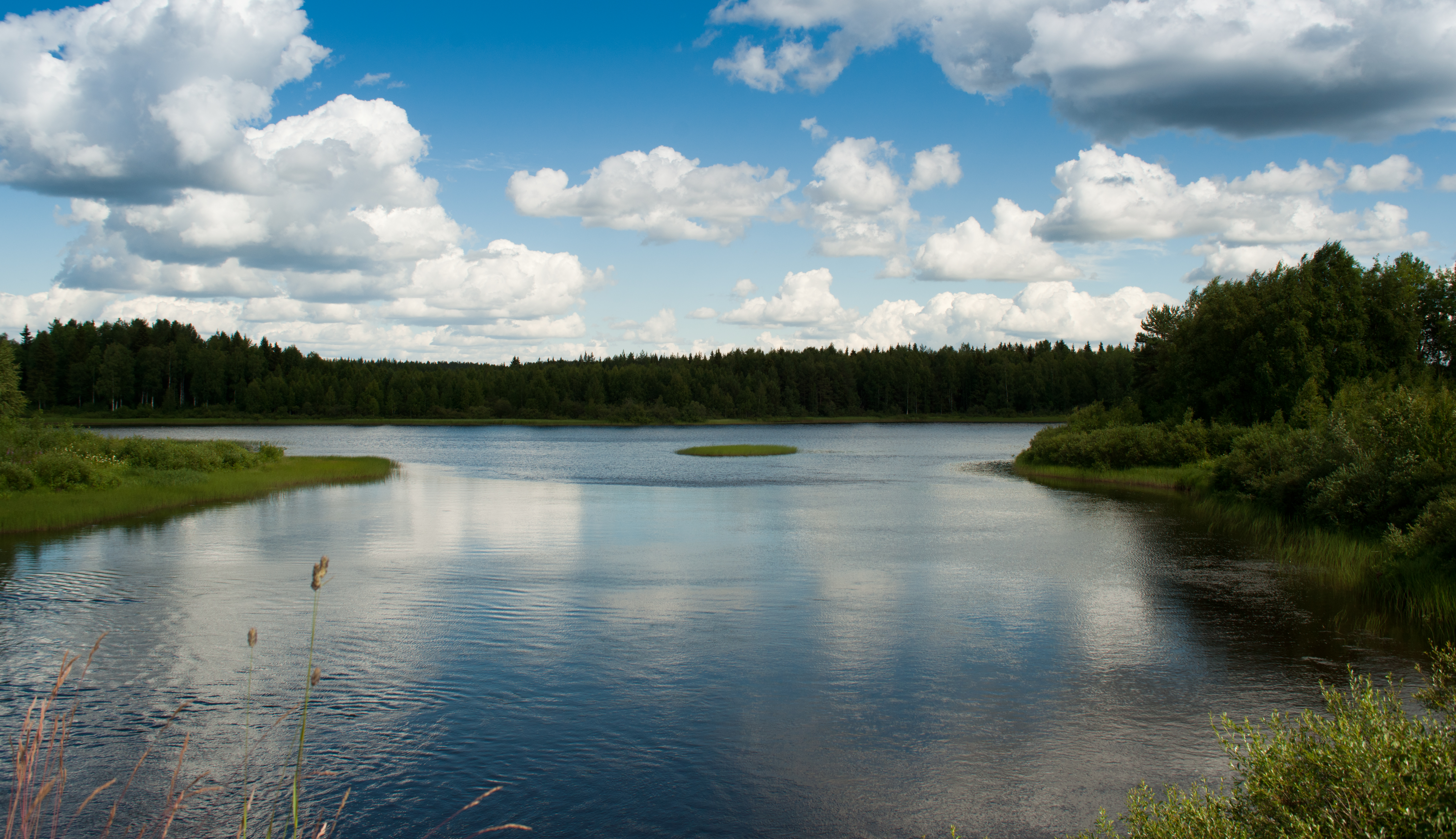 Jaurakkajärvi, Finland